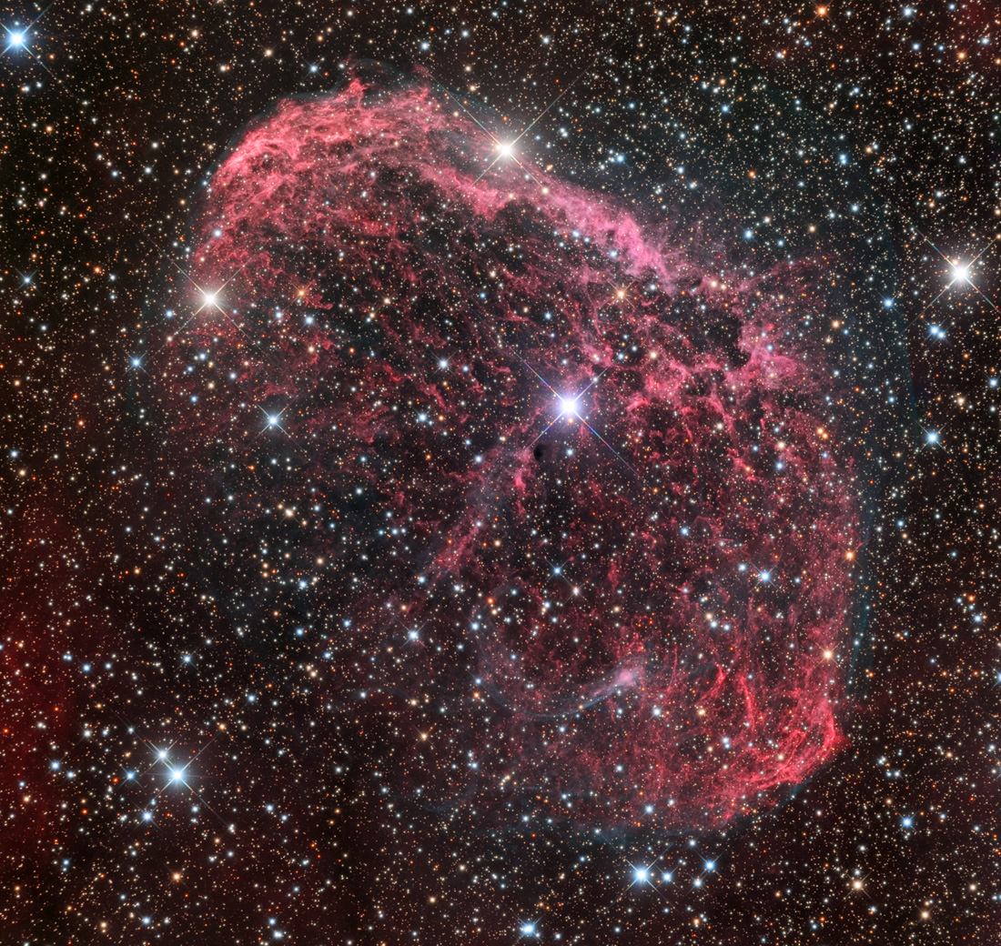 Deep exposures of Nebulae using the 0.8m Schulman Telescope at the Mount Lemmon SkyCenter Credit Line & Copyright Adam Block/Mount Lemmon SkyCenter/University of Arizona